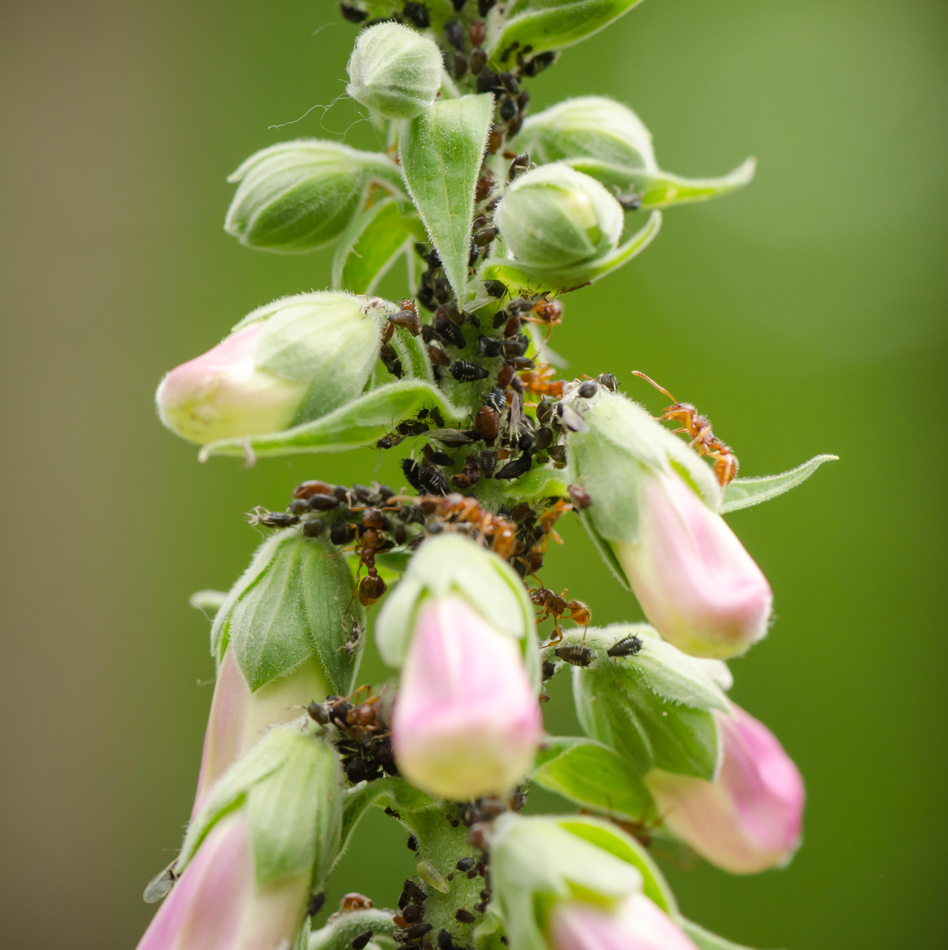 Ants (Myrmica rubra) cultivating/milking afids (Aphis fabae) on Purple Foxglove (Digitalis purpurea), Hesse, Germany. In the marked part of the image (cf. image note), a parasitic wasp is visible. Parasitic wasps can lay eggs in aphids undisturbed by the ants, because they have a chemical camouflage such that the ants think that they are either other ants or are aphids. Acknowledgement: Many thanks to Hugh Loxdale, Richard Harrington and to the user Biopics for their help in assigning the aphid species and for providing additional information. According to the two experts Hugh Loxdale and Richard Harrington, the aphid species on the photo is apparently Aphis fabae.